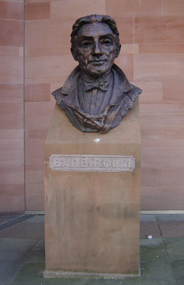 It's outside the Bridgewater Hall